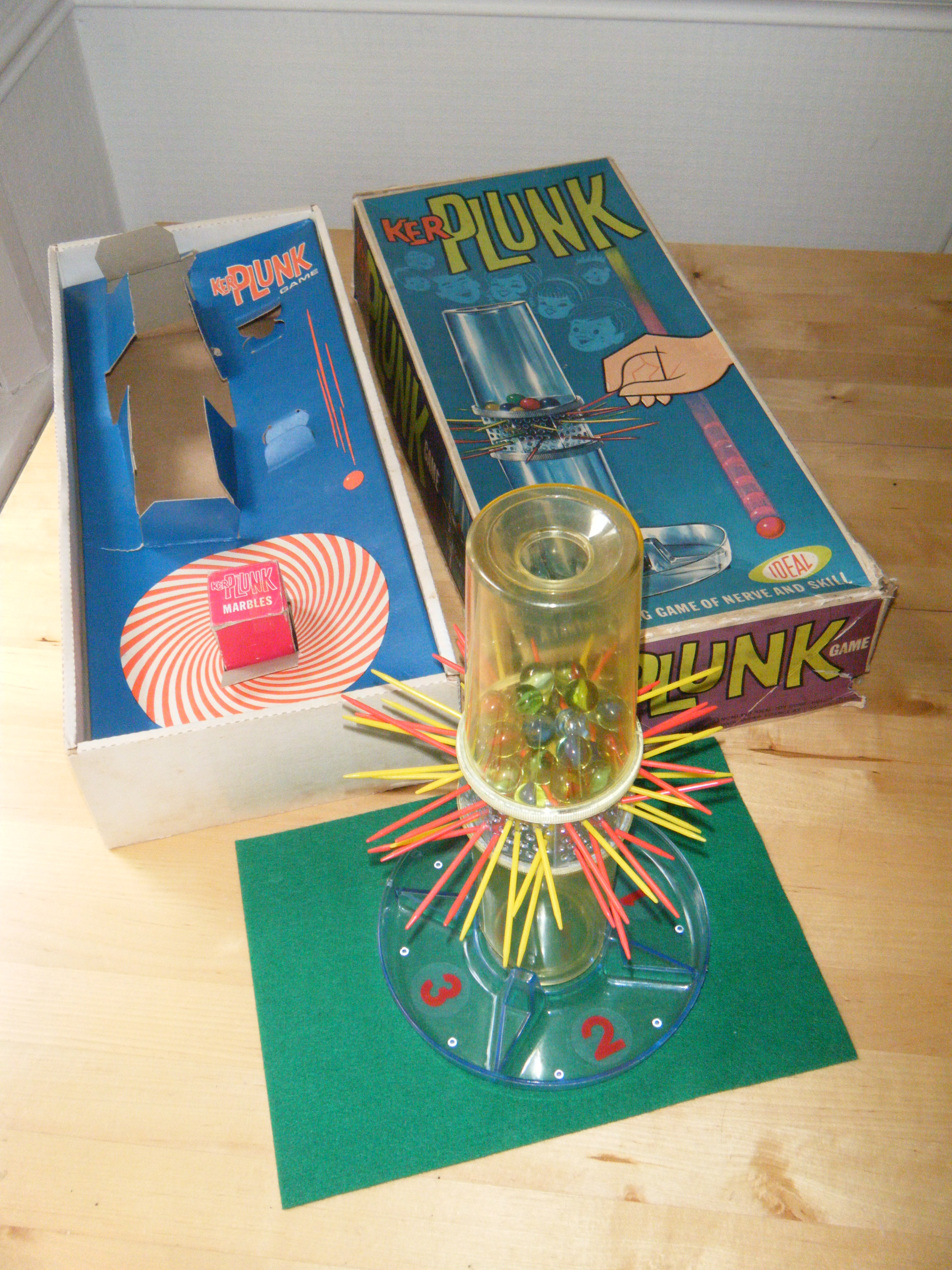 Original British version of KerPlunk game.